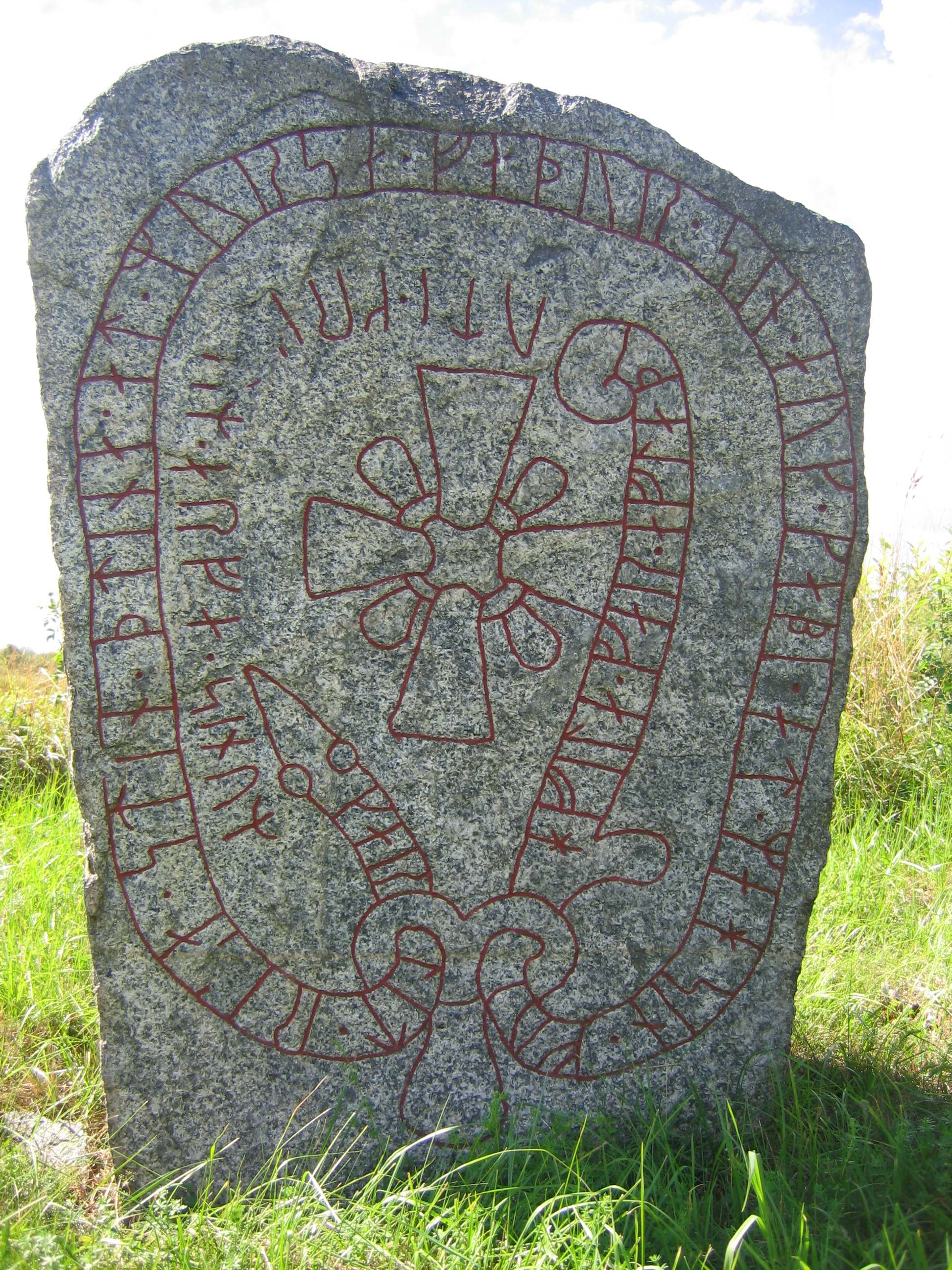 Runestone U 792 located at a creek near the village Ulunda, near Enköping in Sweden.